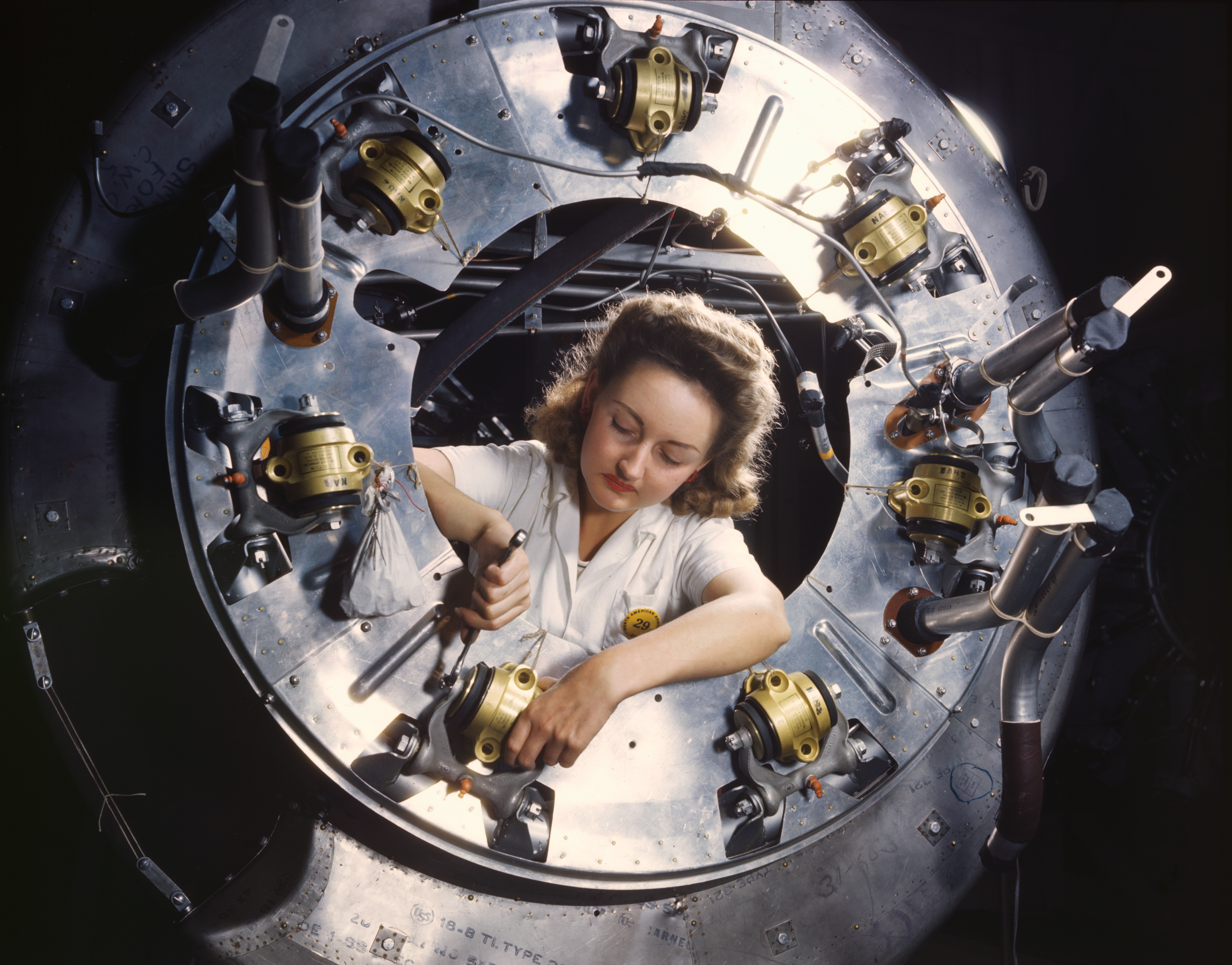 Part of the cowling for one of the motors for a B-25 bomber is assembled in the engine department of North American [Aviation, Inc.]'s Inglewood, Calif., plant